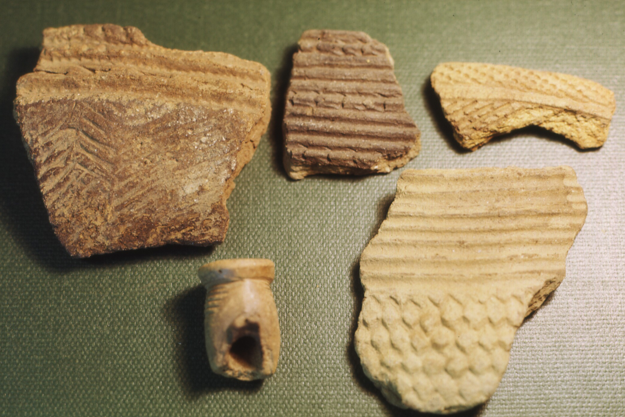 Prehistoric pottery sherds from archaeological excavations at Kamabai Rock Shelter, Sierra Leone (West Africa) The piece on the lower left is part of a ceramic pipe --- the part that fits onto the stem. The bowl would have been where the visible hole is now. For an image of the Kamabai Rock Shelter, see: File:Kamabai Rock Shelter, Sierra Leone.jpg ( Wiki-Commons ).